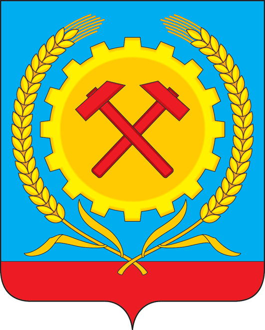 Coat of Arms of Povorino urban settlement, Voronezh Region, Russia